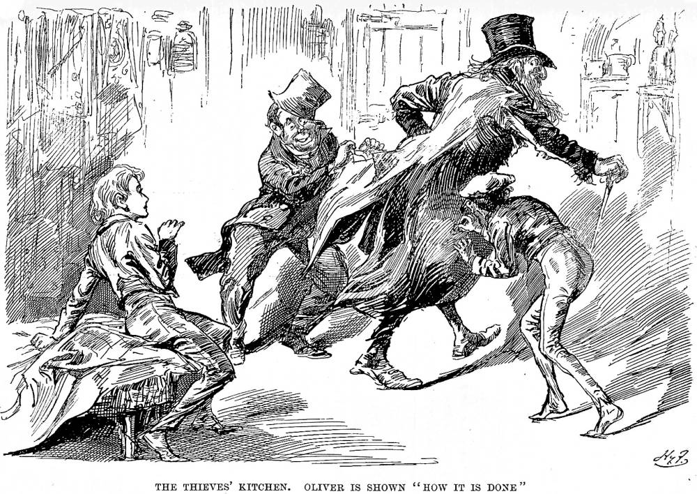 Engraving of Charles Dickens's Oliver Twist, scanned by Philip V. Allingham for The Victorian Web.